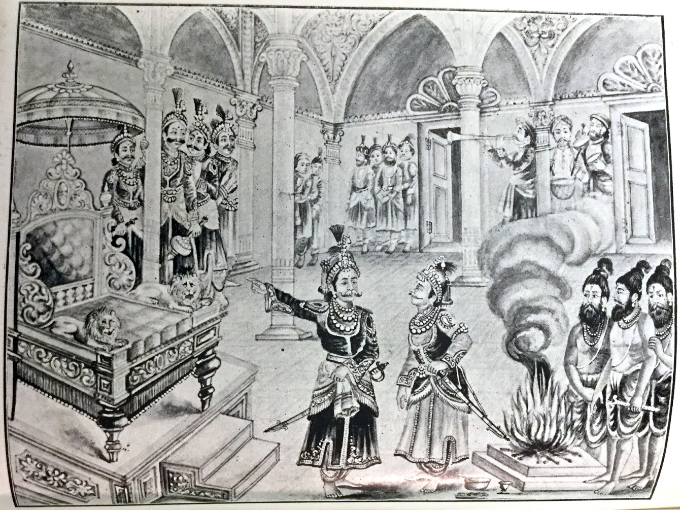 FOLLOWING ARE THE PICTURES FROM A 100 YEAR OLD BOOK OF BHAGAVATA PURANA. THESE PICTURES COVER FIRST TWO BOOKS; BHAGAVATA HAS 12 BOOKS